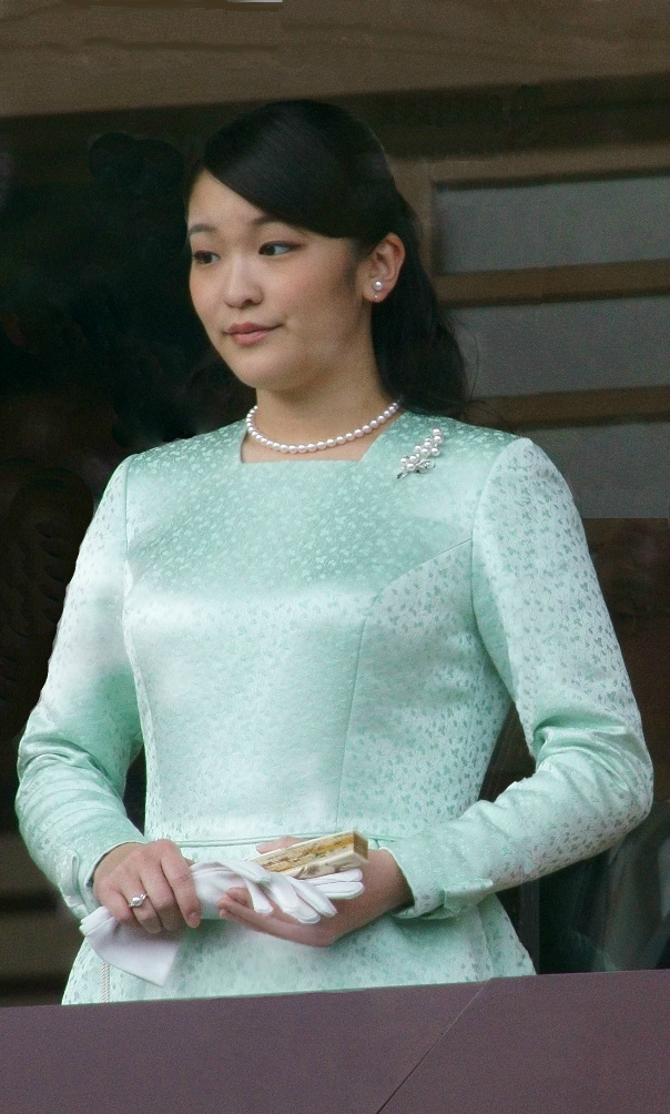 Princess Mako (left) and Princess Kako (right) during the New Year Greeting 2015 at the Tokyo Imperial Palace.